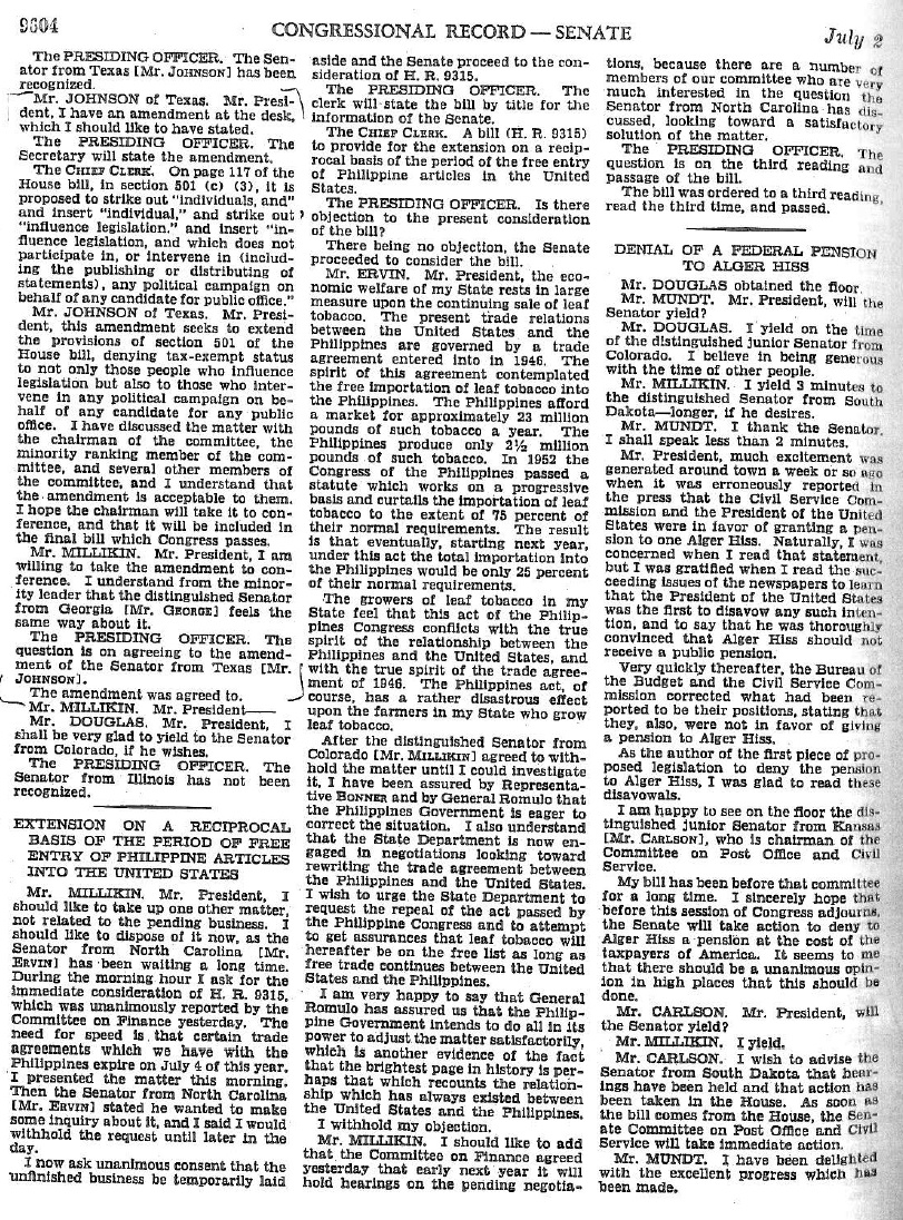 Page 9604, Congressional Record-Senate, July 2, 1954, containing the so-called "Johnson Amendment"